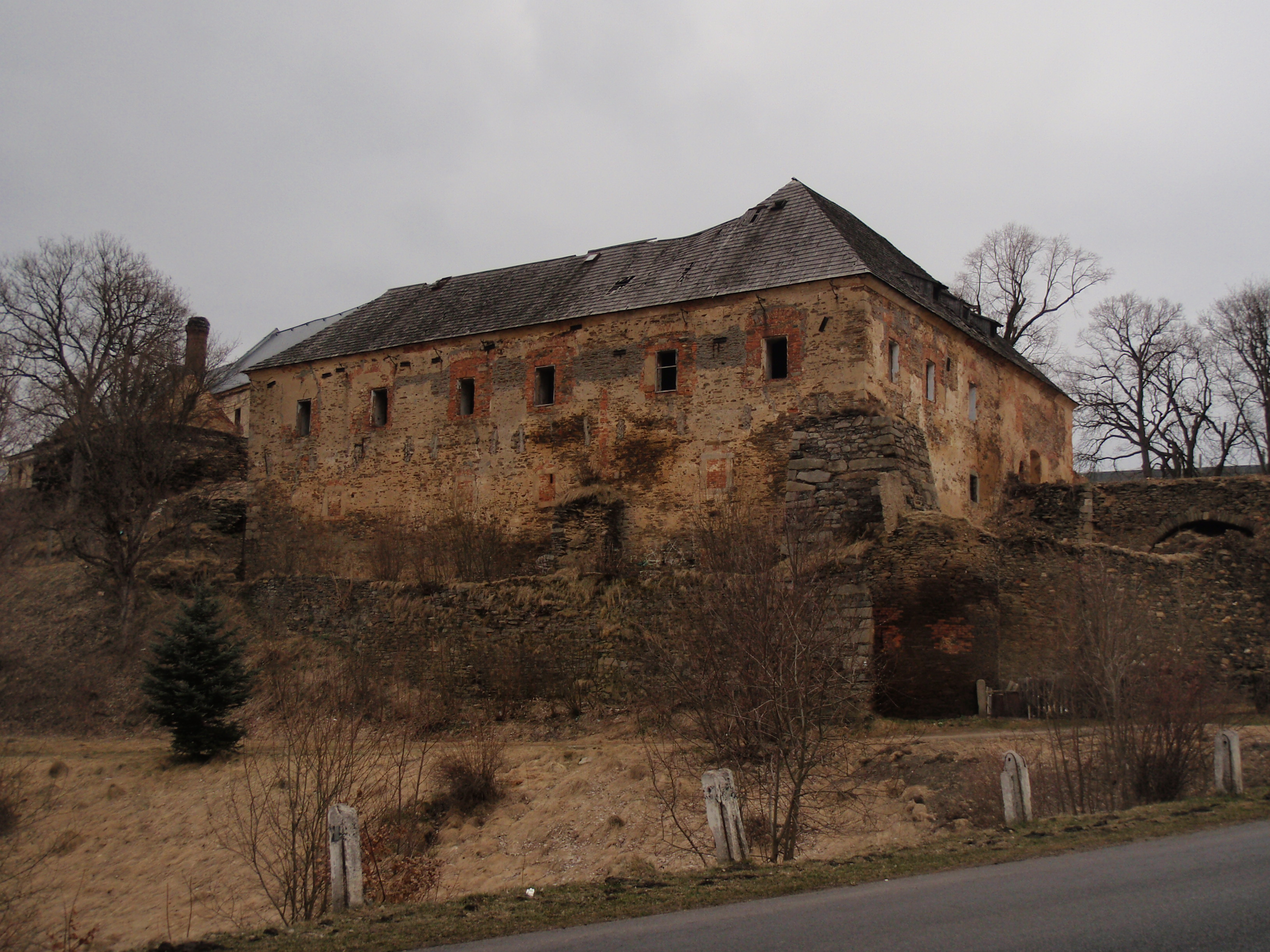 castle